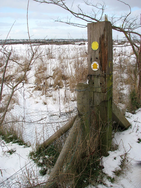 Footpath marker beside Boudica's Way This footpath marker is located at the south-eastern edge of Caistor St Edmund chalk pit which can be seen on the other side of the fence. Boudica's Way leads past here. Boudica's Way is a 40-mile footpath that links Norwich and the market town of Diss on the Suffolk borders. The name Boudica (often spelled 'Boadicea', which was the Victorian version or 'Boudicca', used by Tacitus) derives from the Celtic 'bouda' which means victory. Boudica was the wife of the Icenian king Prasutagus. When he died his kingdom was annexed by the Romans, Boudica was flogged and her daughters raped. In AD 60 or 61 Boudica led the Iceni, along with others, in revolt. They destroyed Camulodunum (Colchester) and the site of a temple to the former emperor Claudius. Boudica was defeated in the end and is reported by Tacitus to have poisoned herself. The site where she is buried is unknown.